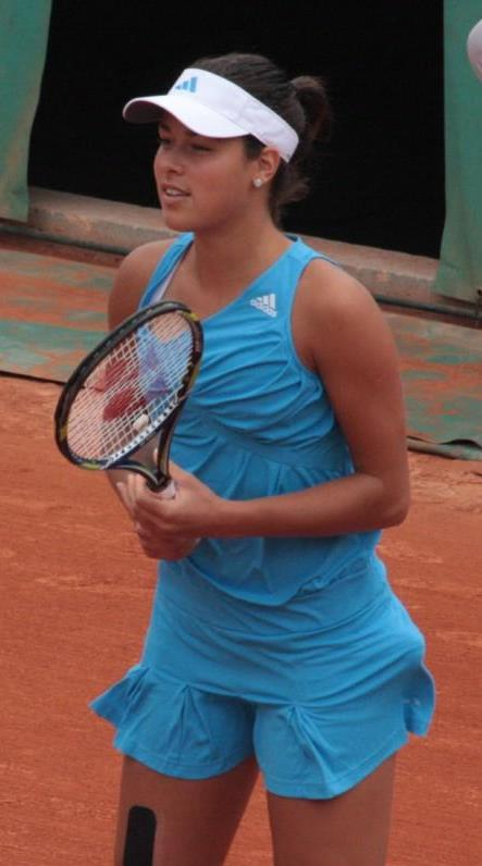 Ana Ivanović at 2009 Roland Garros, Paris, France